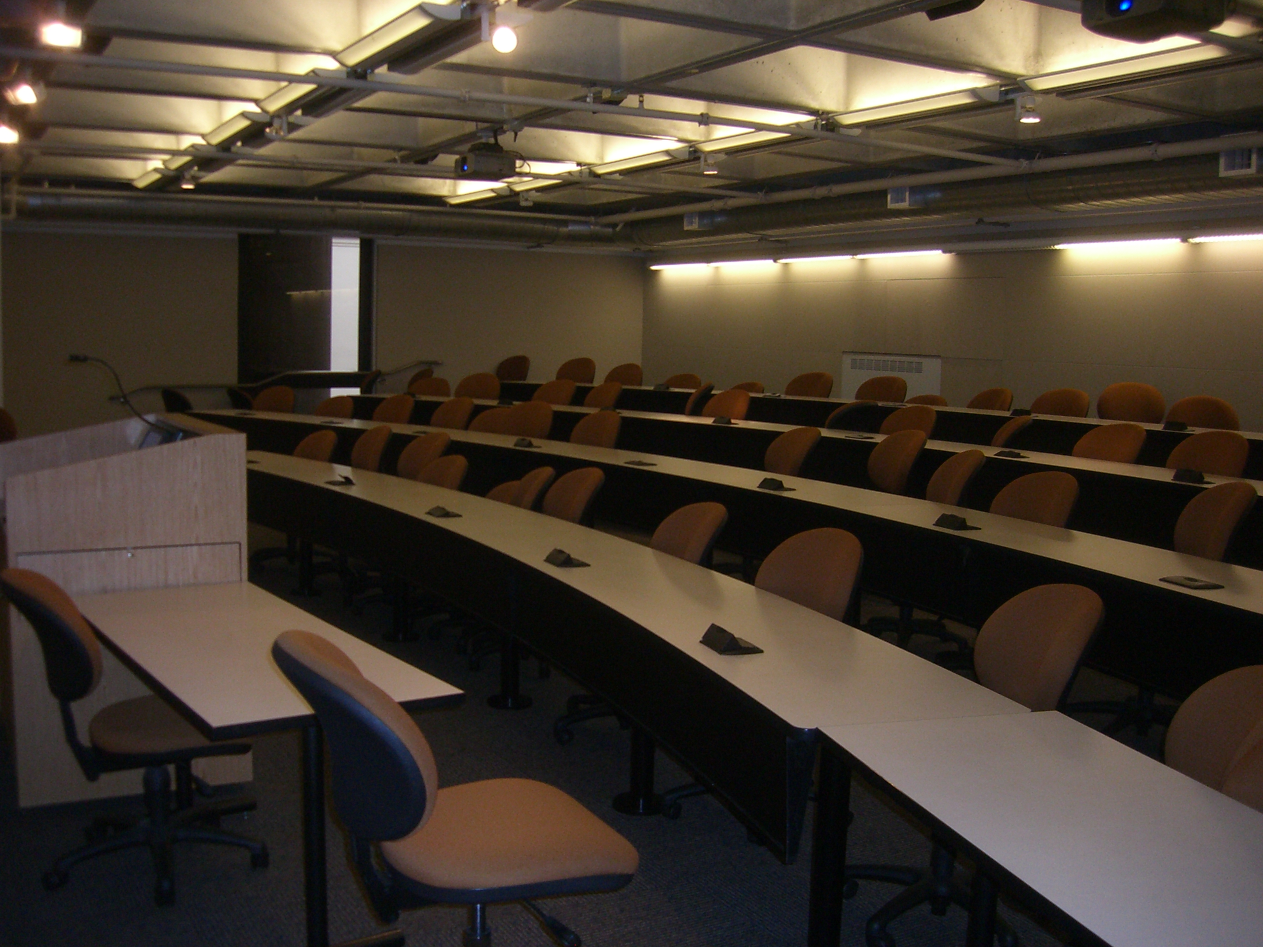 Lecture Hall at Golden Gate University School of Law.